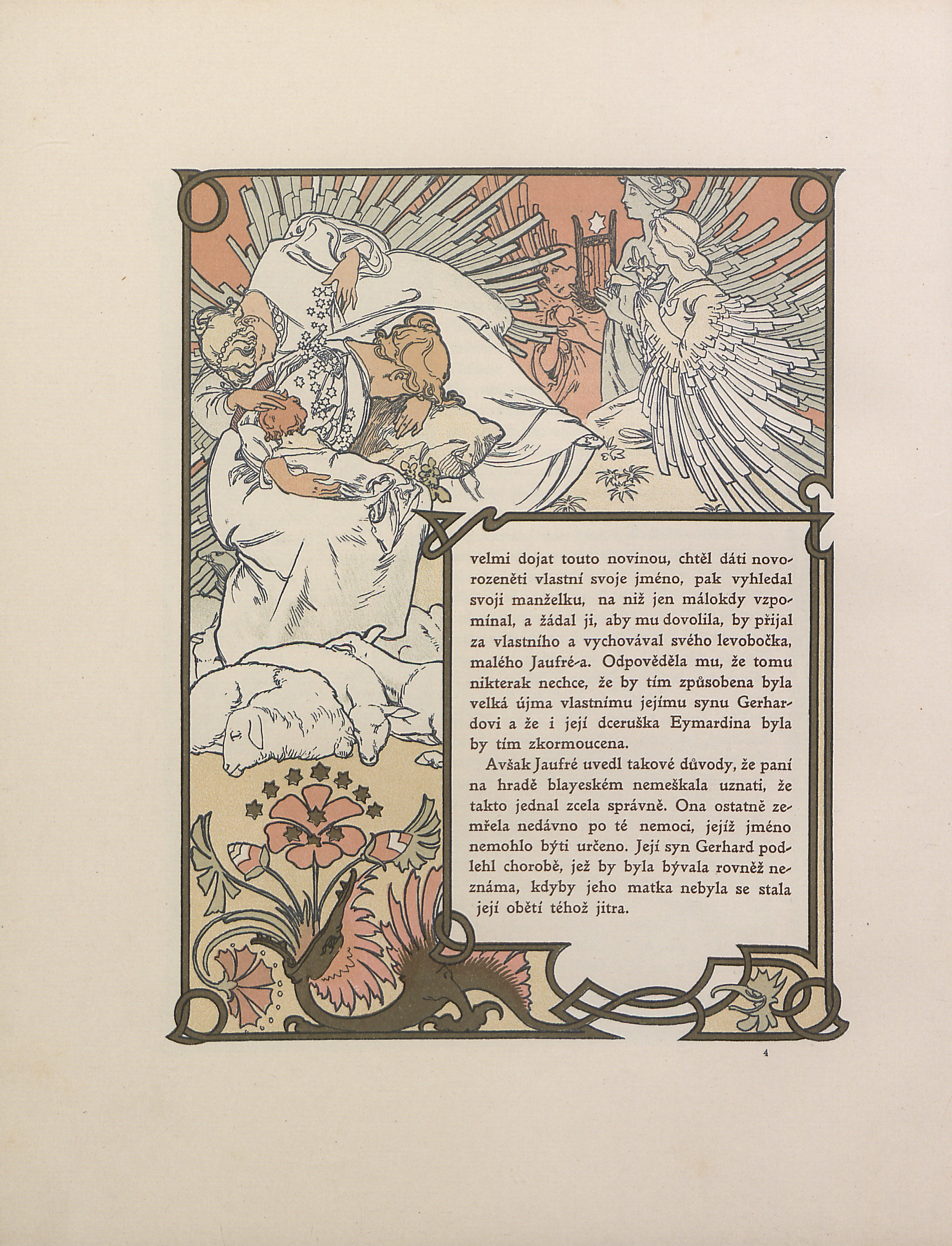 Alphonse Mucha's illustrations for the Robert de Flers book "Ilsée, princesse de Tripoli" published in Czech lanugage in 1901.